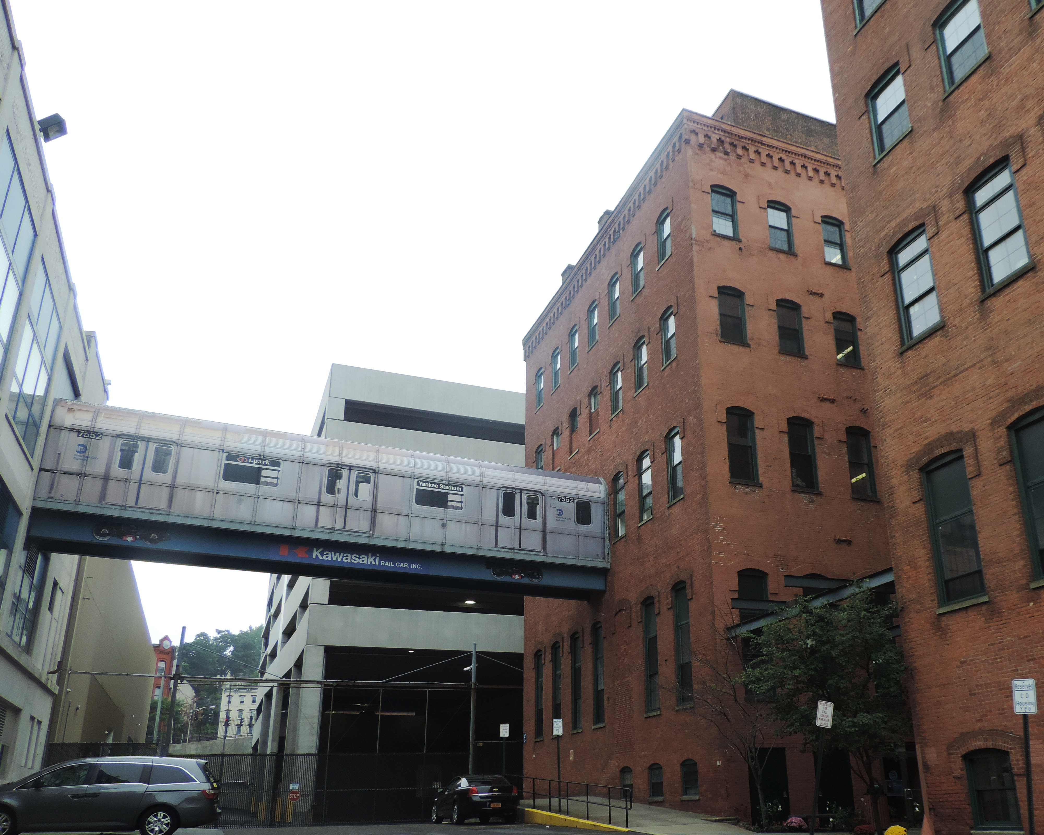 Looking southeast at factory's skybridge on a cloudy day.